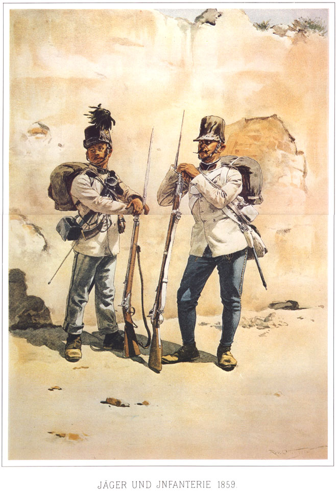 Austrian Jäger (left) and Line infantry (right) in 1859